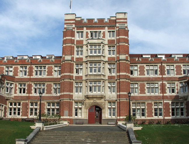 Knox College, University of Otago, New Zealand